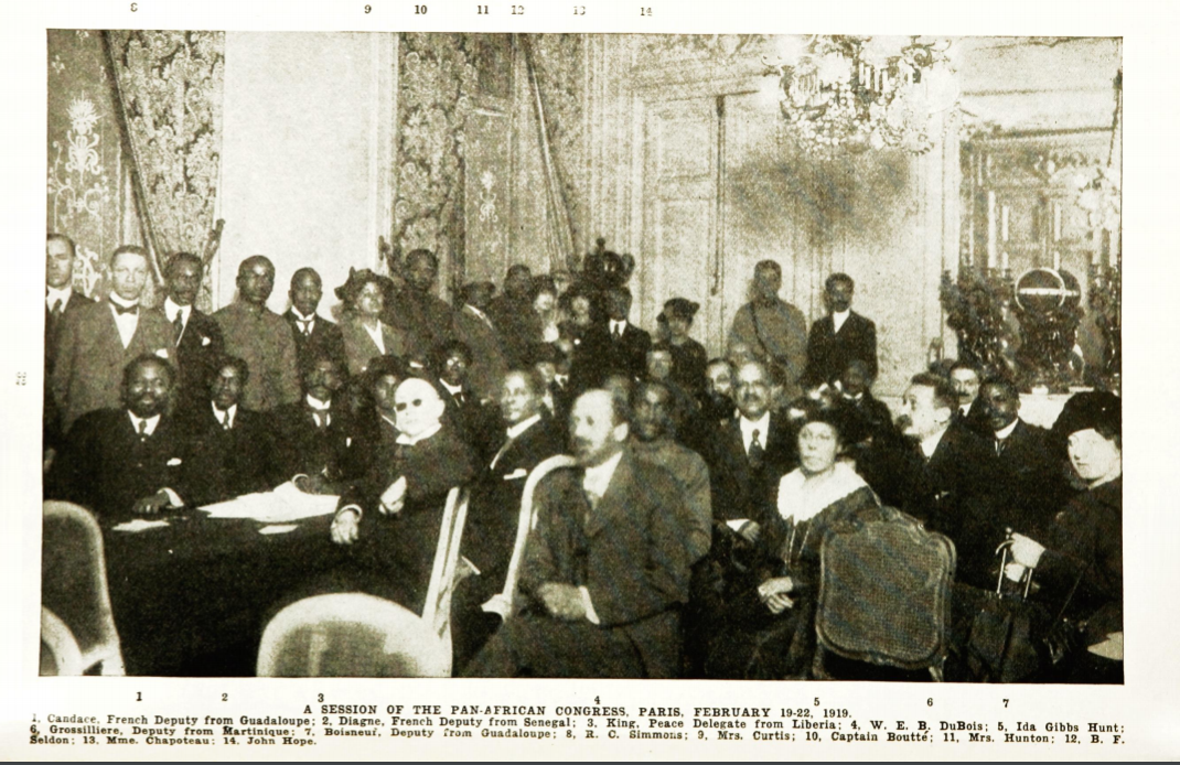 A session of the Pan-African Congress, Paris, February 19-22, 1919. Image from "Crisis, A Record of the Darker Races", (Vol. 18, No. 1, May 1919)